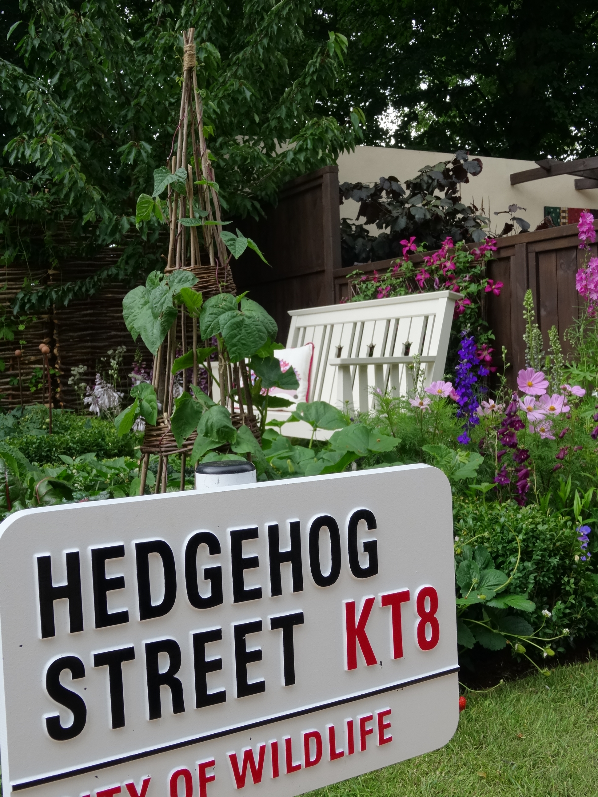 This was a the show garden at Hampton Court Flower Show about the Hedgehog Street conservation campaign. Designed by Tracy Foster, in partnership with People's Trust for Endangered Species (PTES) and the British Hedgehog Preservation Society (BHPS). It won gold and the People's Choice Award.